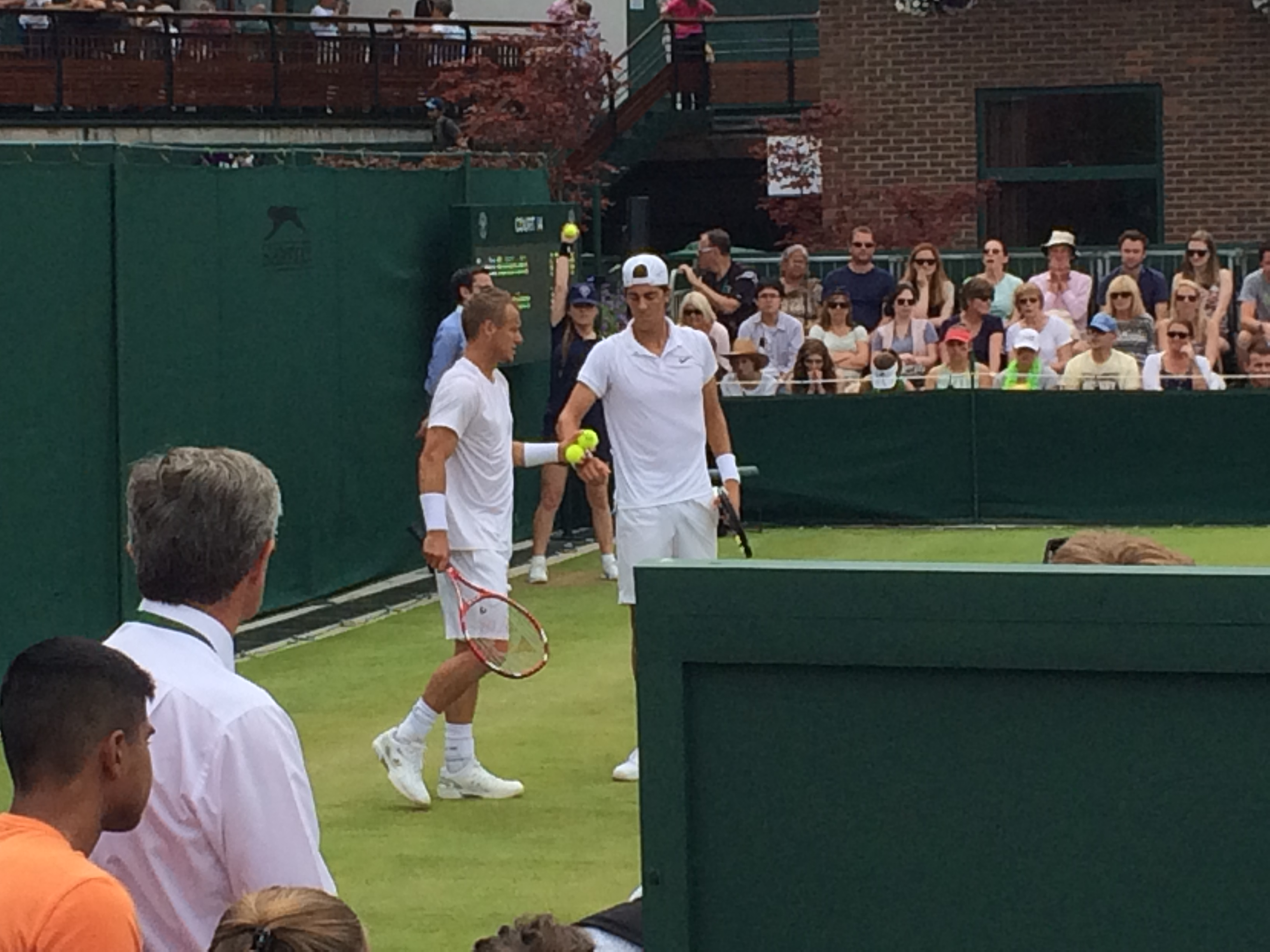 Lleyton Hewitt and Thanasi Kokkinakis during their doubles first round match at Wimbledon 2015.